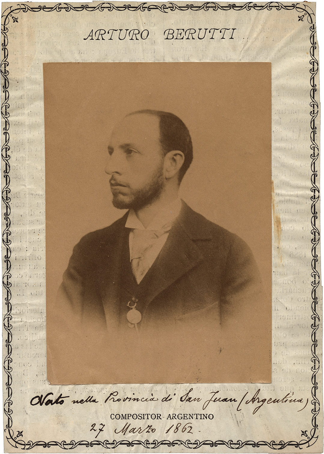 Portrait of Arturo Berutti, composer (1862-1938). Photo by unknown, before 1938.